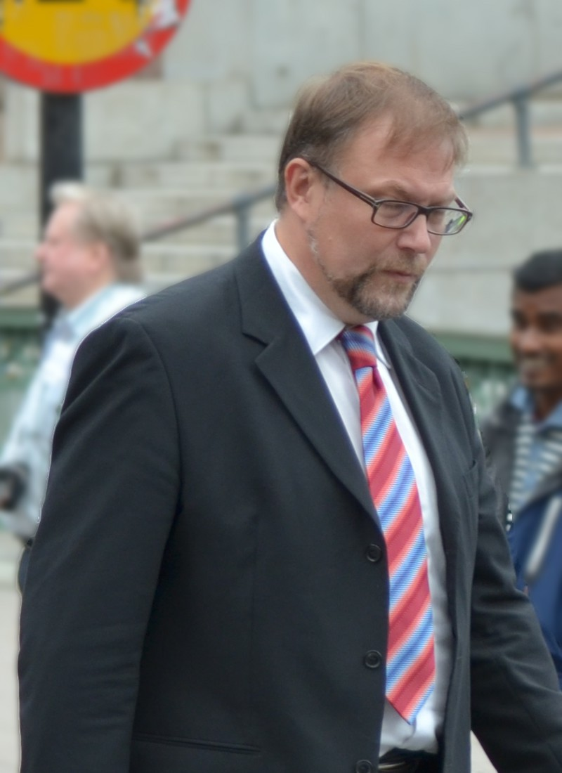 Mikael Jansson, member of the Riksdag for the Sweden Democratic Party.